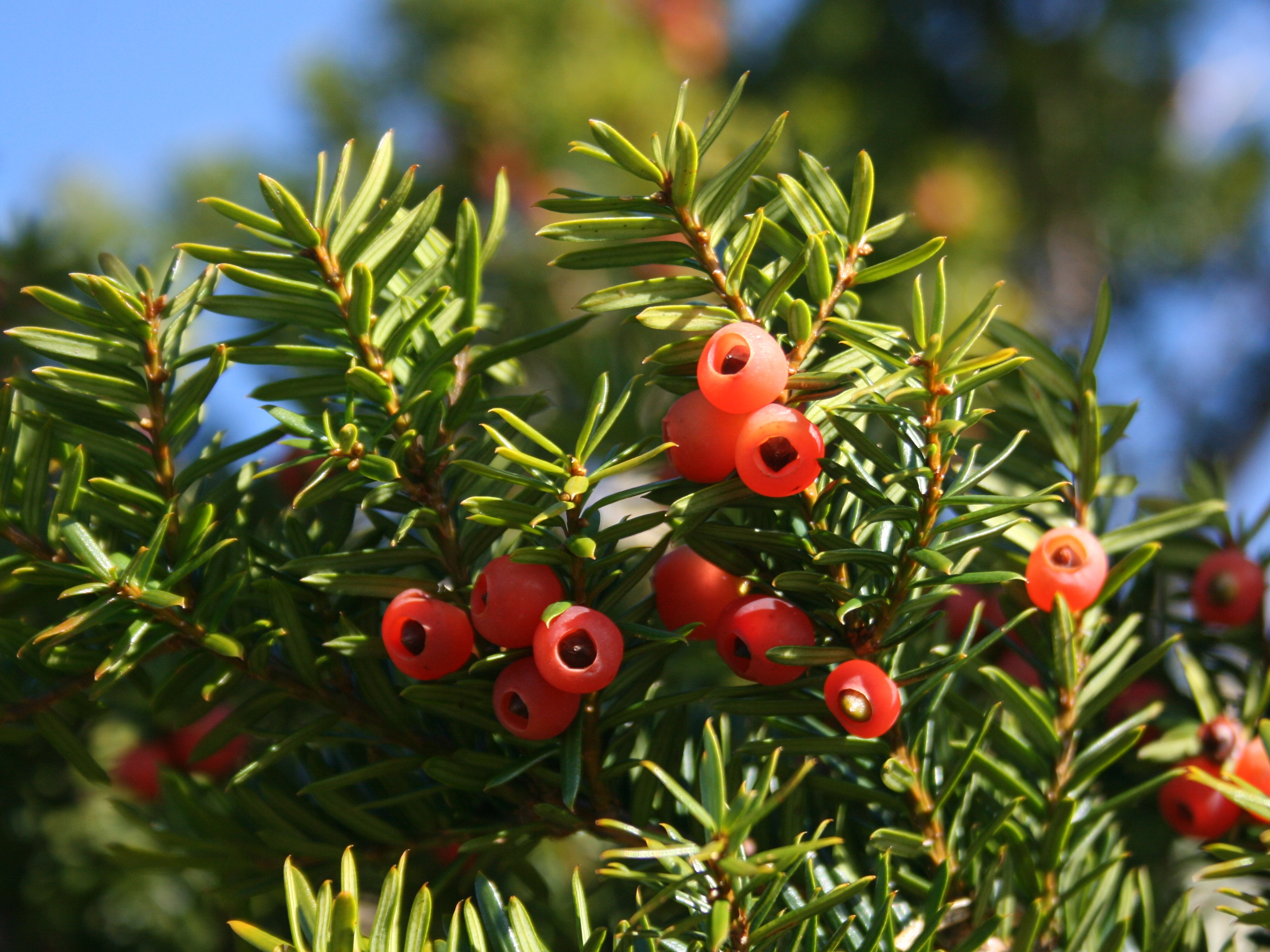 Fruits of Japanese Yew (Taxus cuspidata) in Ryōhaku Mountains, Japan.